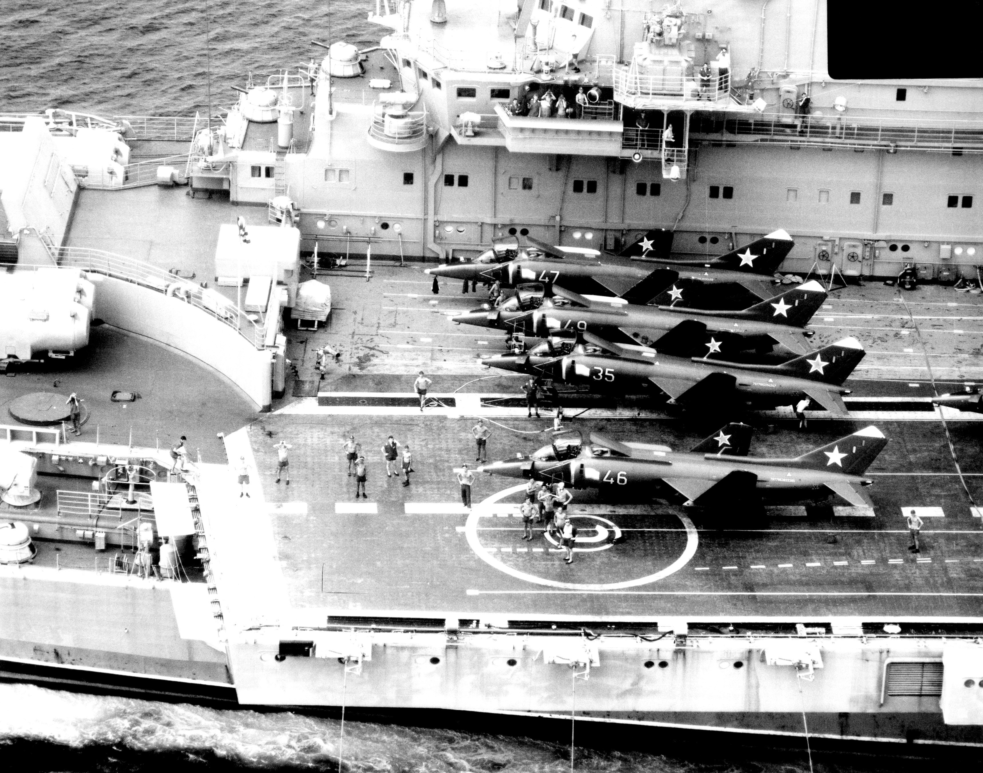 Port beam view of the Soviet Kiev class carrier MINSK (CVHG) underway with four Forger VTOL Yak-38 aircraft on its flight deck.